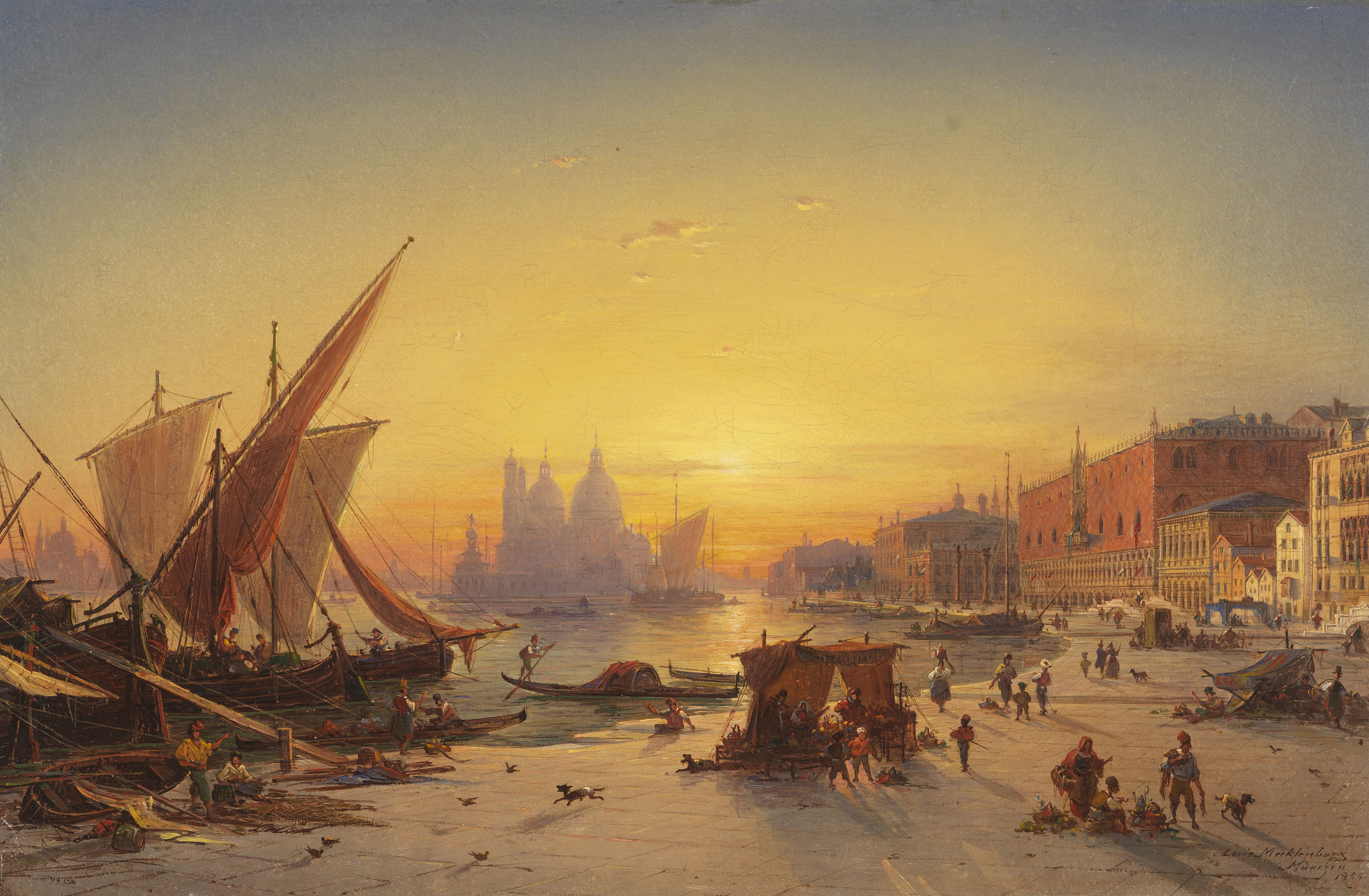 Venice on evening light